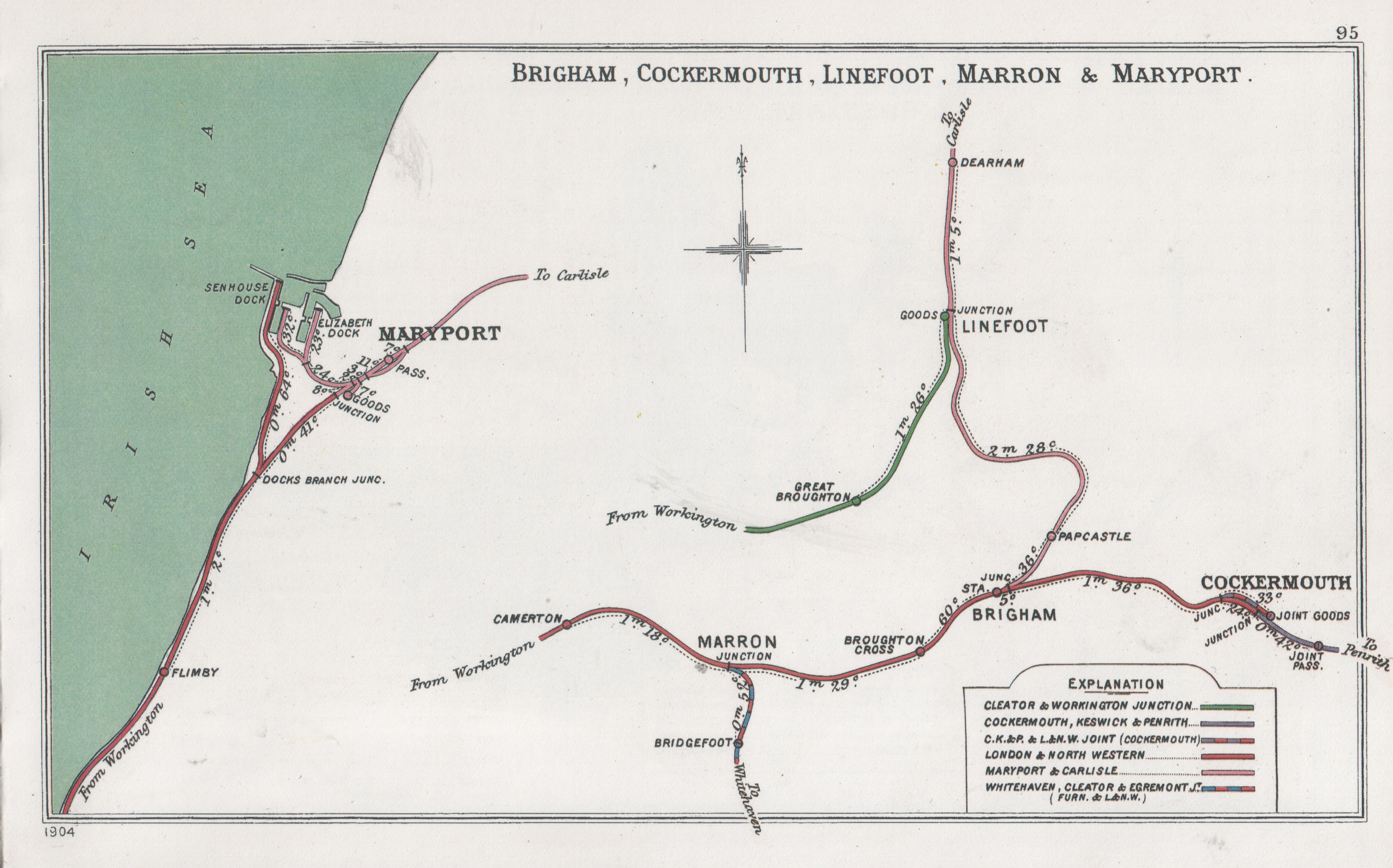 Pre Grouping railway junction around Brigham, Cockermouth, Linefoot, Marron & Maryport